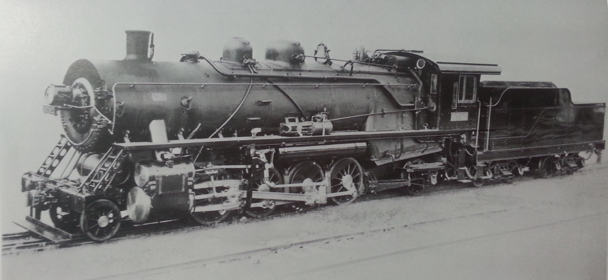 Builder's photo of Manchukuo National Railway Mikana6782.